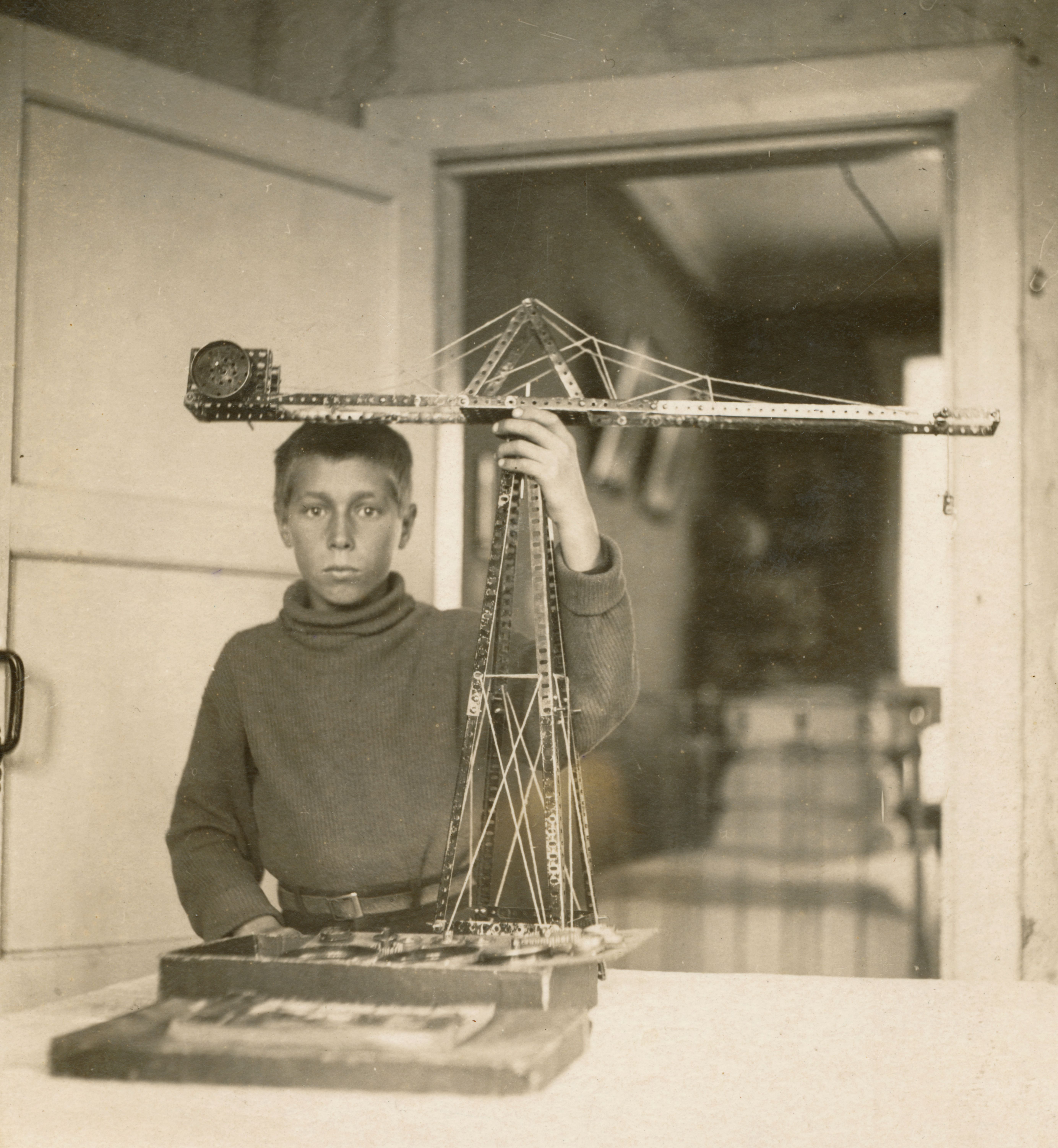 Metal Construction Kit for Children. (1933, USSR)